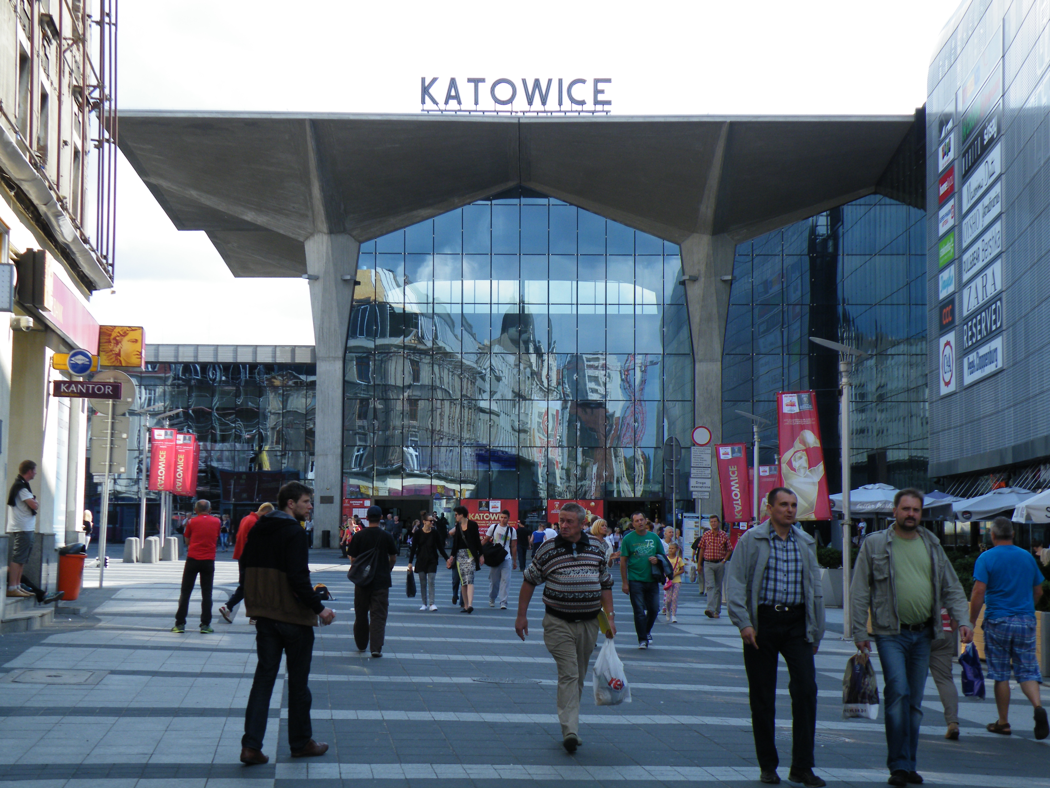 This photo was taken during Railway Wikiexpedition 2014 set up by Wikimedia Polska Association in cooperation with Fundacja Grupy PKP. You can see all photographs in category Wikiekspedycja kolejowa 2014. English | Polski | +/−